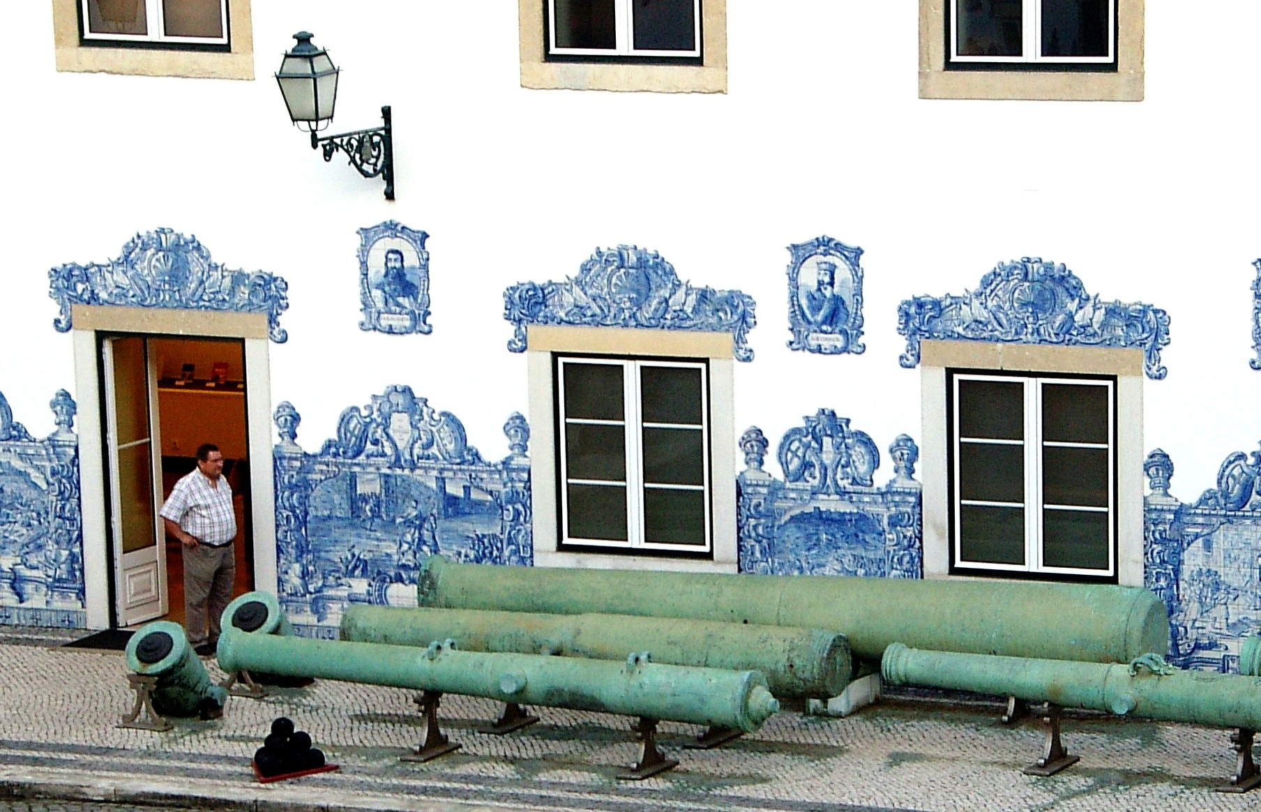 View of the Tiro de Diu next to the wall of the Pátio dos Canhões, Military Museum, Lisbon